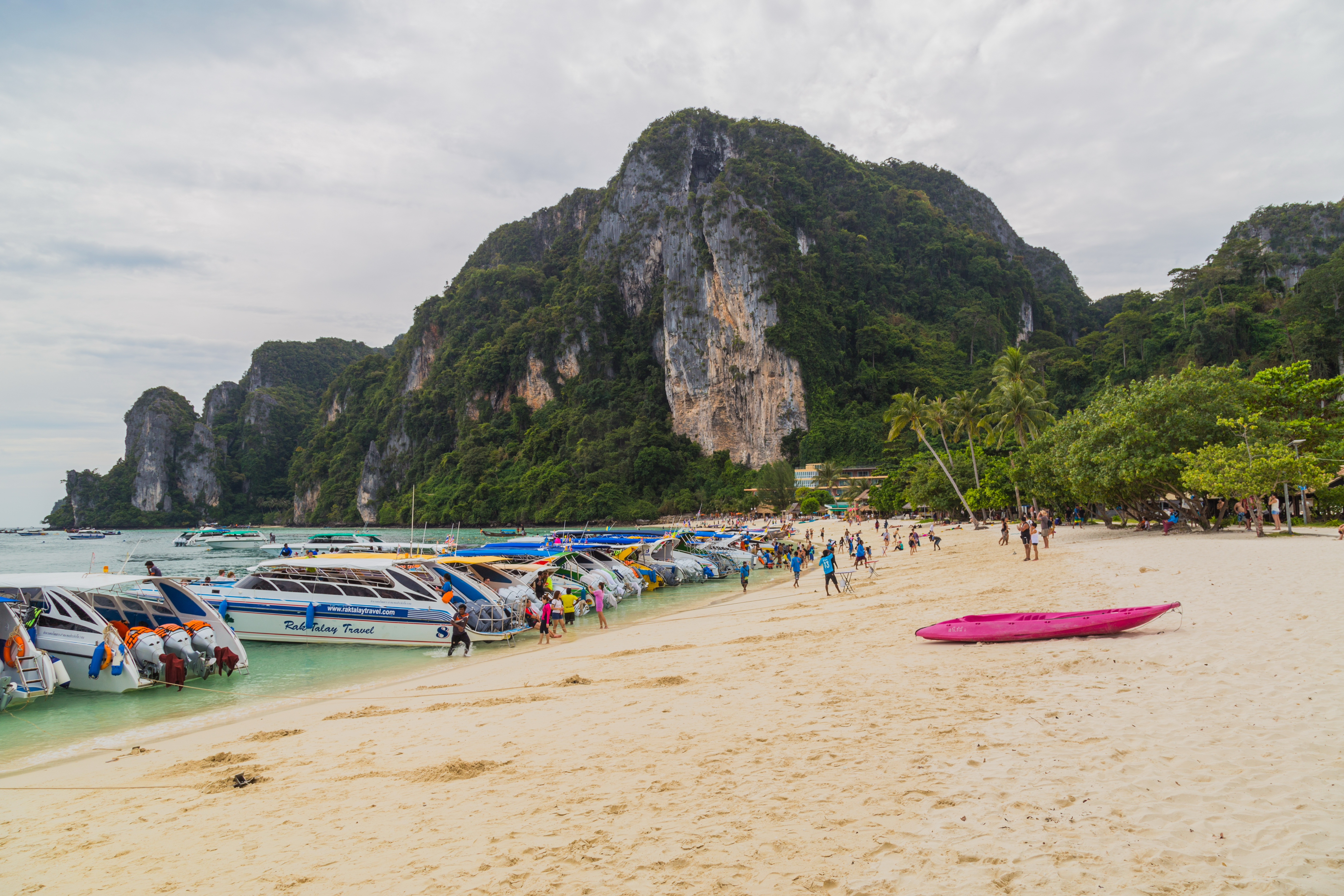 Ton Sai Beach. Hat Noppharat Thara–Mu Ko Phi Phi National Park. Ko Phi Phi Don, Mueang Krabi District, Krabi Province, Thailand.